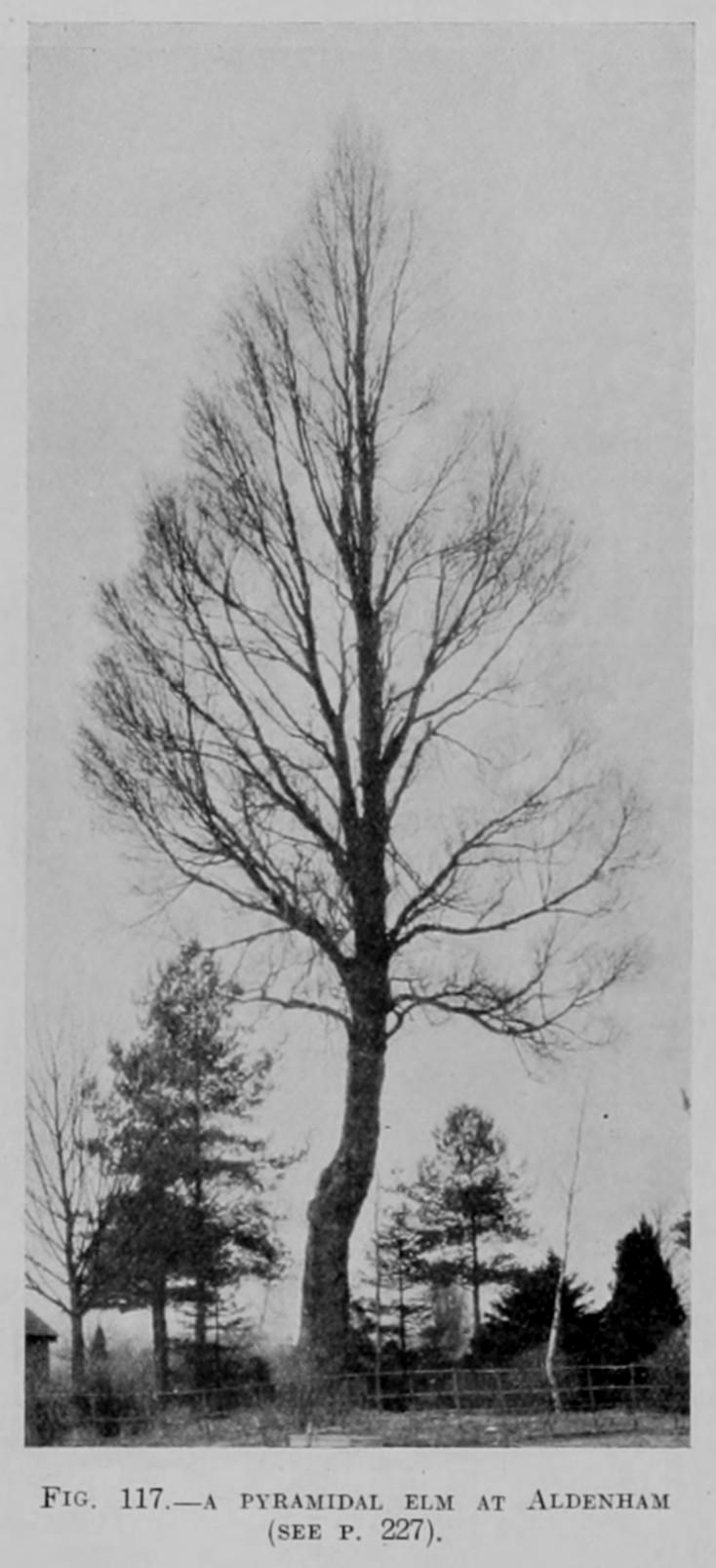 Photo of Ulmus 'Pyramidalis' taken at Aldenham, seat of Vicary Gibbs, before 1922.